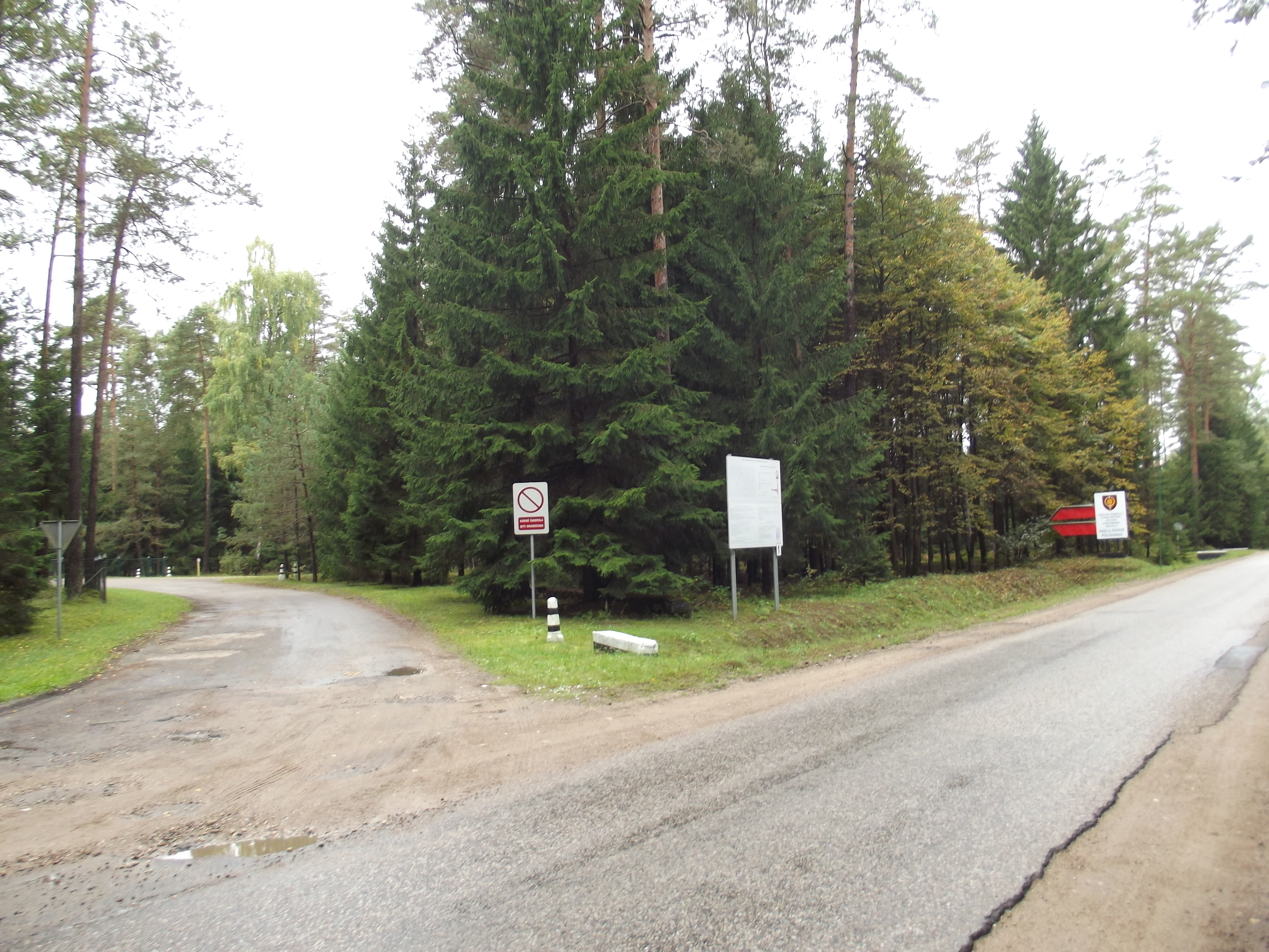 Military proving ground in Kazlų Rūda, Lithuania